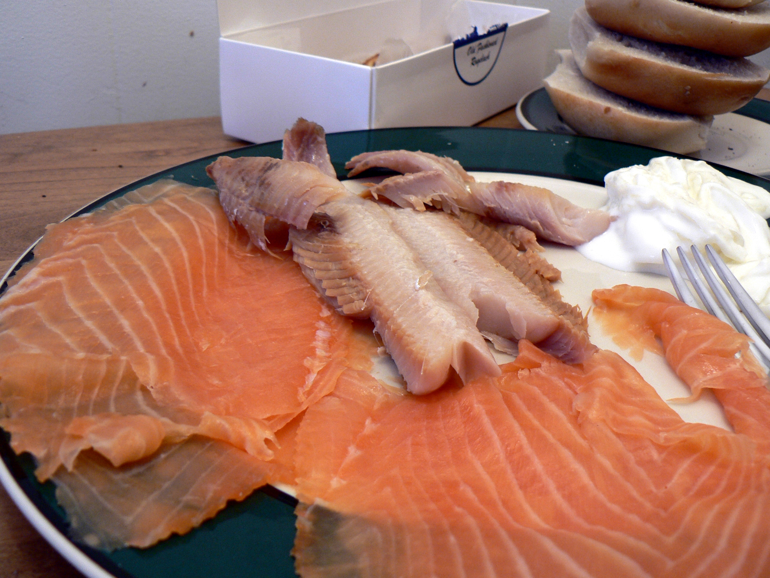 whitefish and belly lox